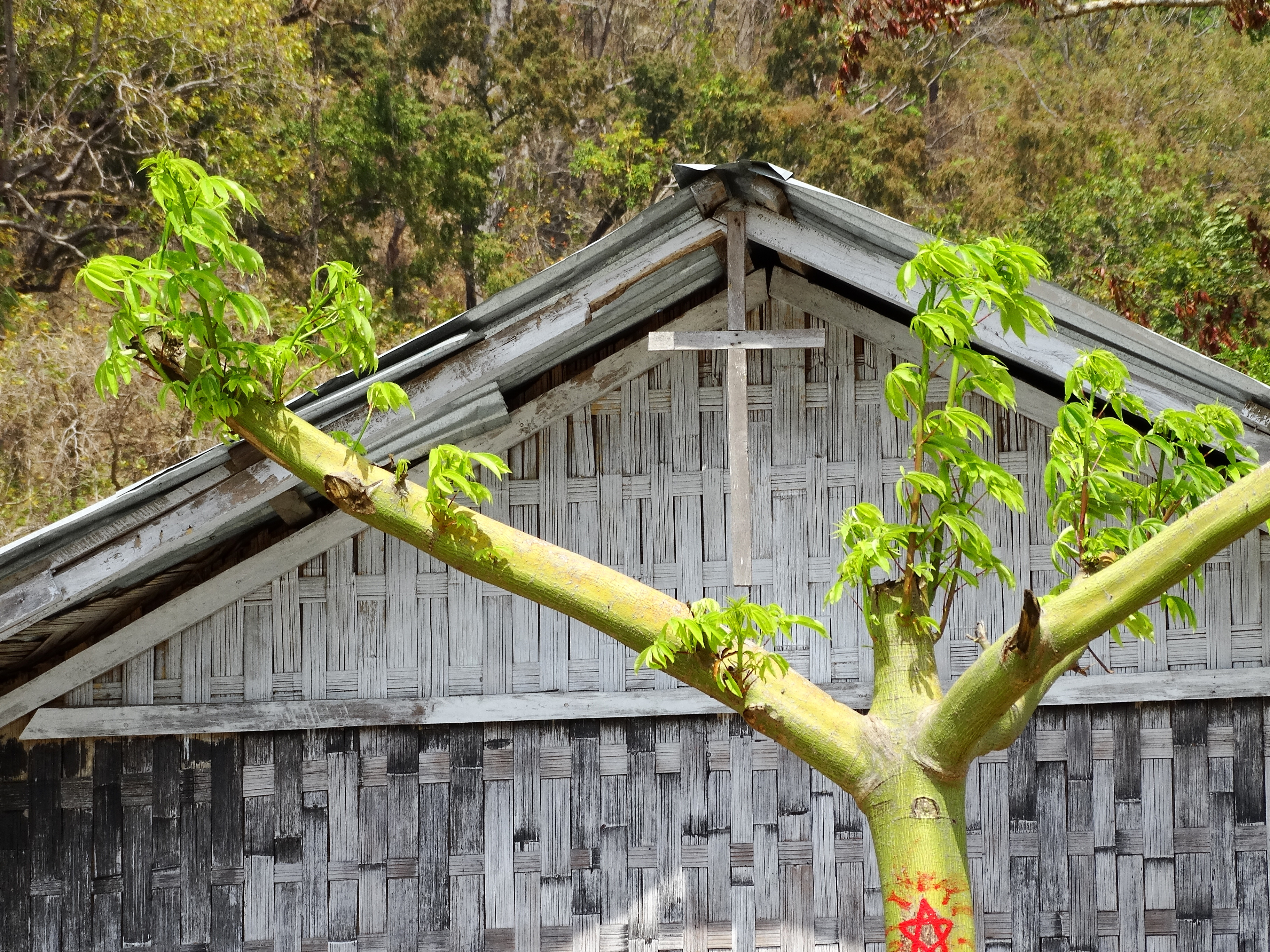 Christian Church - Boga Lake - Chittagong Hill Tracts - Bangladesh